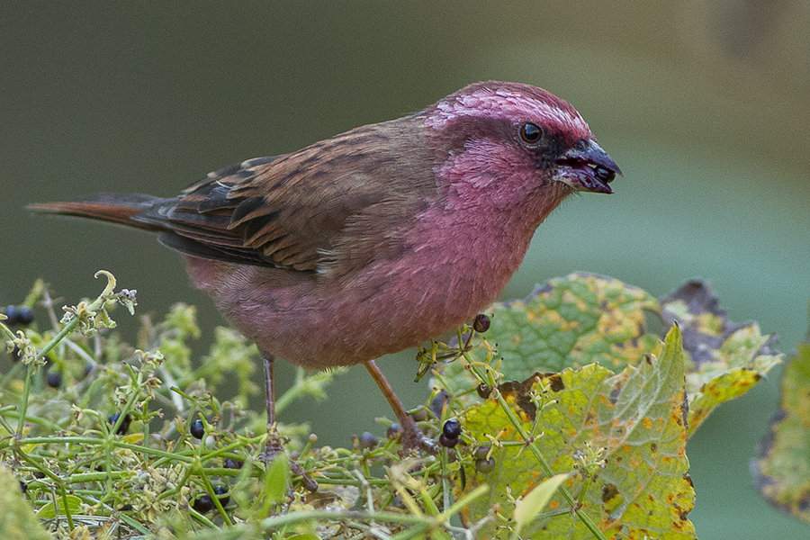 The species Pink-browed Rosefinch had been photographed from Nanda Devi National Park in Uttarakhand, India during GoingWild's birding trip on 17.11.2013.